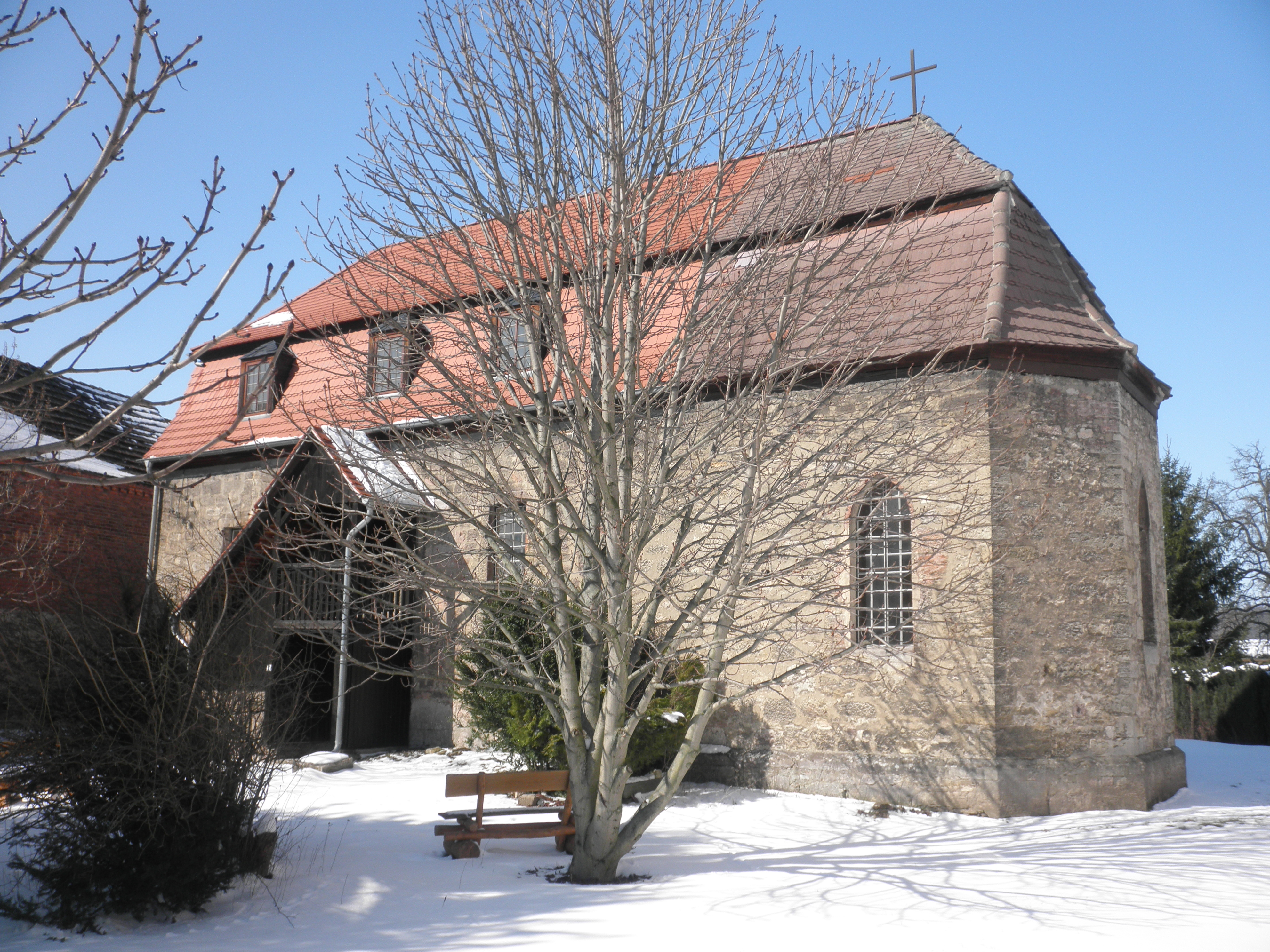 Church in Closewitz (Jena) in Thuringia